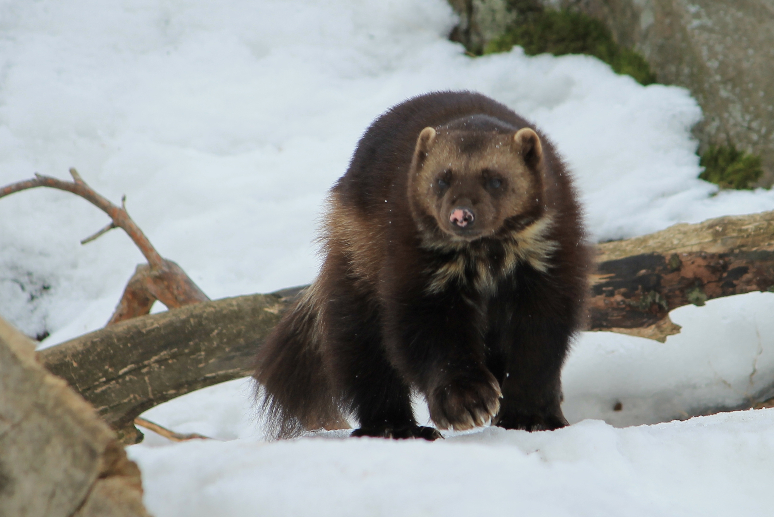 Wolverine (Gulo gulo, female, born 1996) at the Helsinki Zoo.